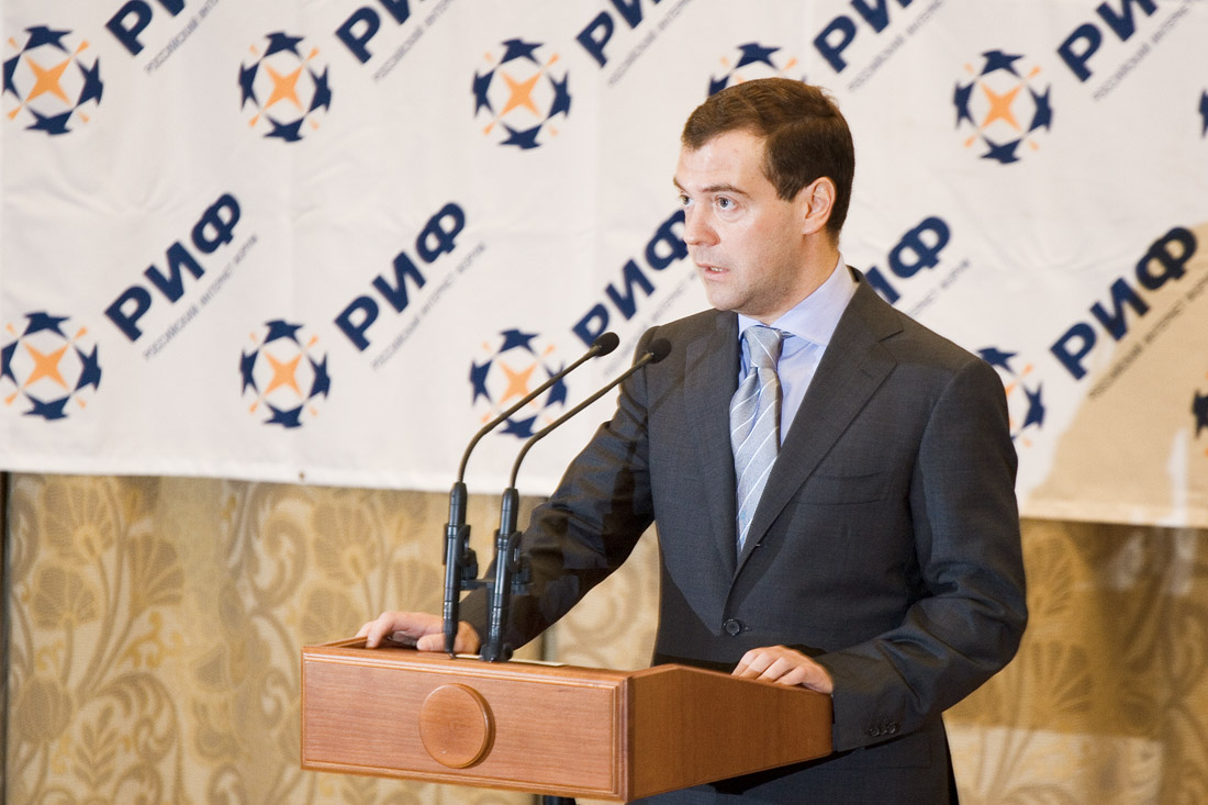 Russian president-elect Dmitry Medvedev opens Russian Internet Forum — 2008